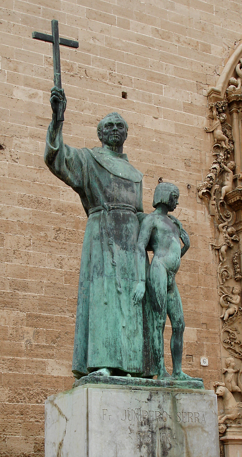 A statue of Juníper Serra (1713-1784) (Majorca, Spain)